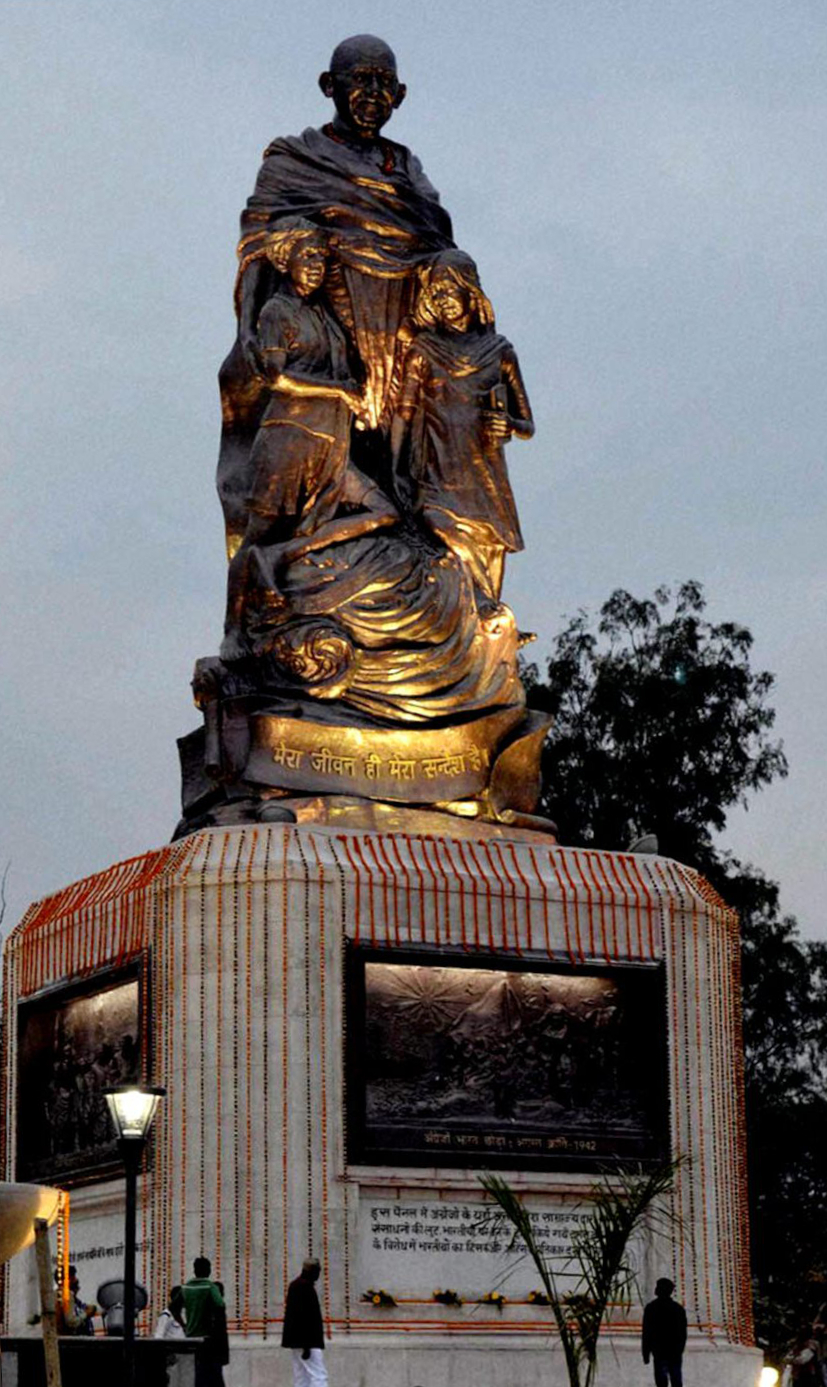 gandhi maidan patna